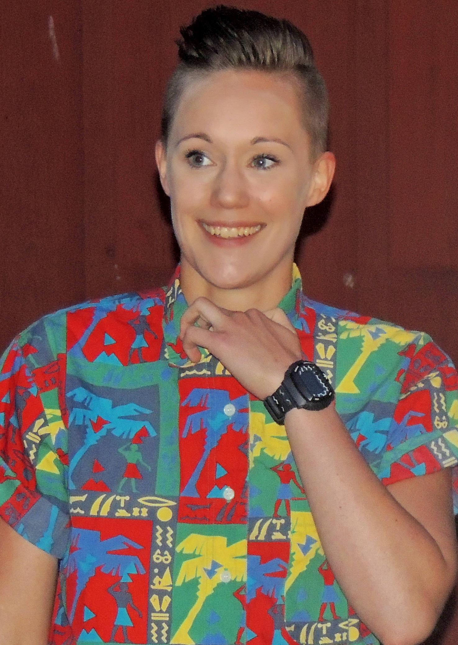 Matilda Berggren at the Swedish Social Democratic Youth League's general election camp 2014